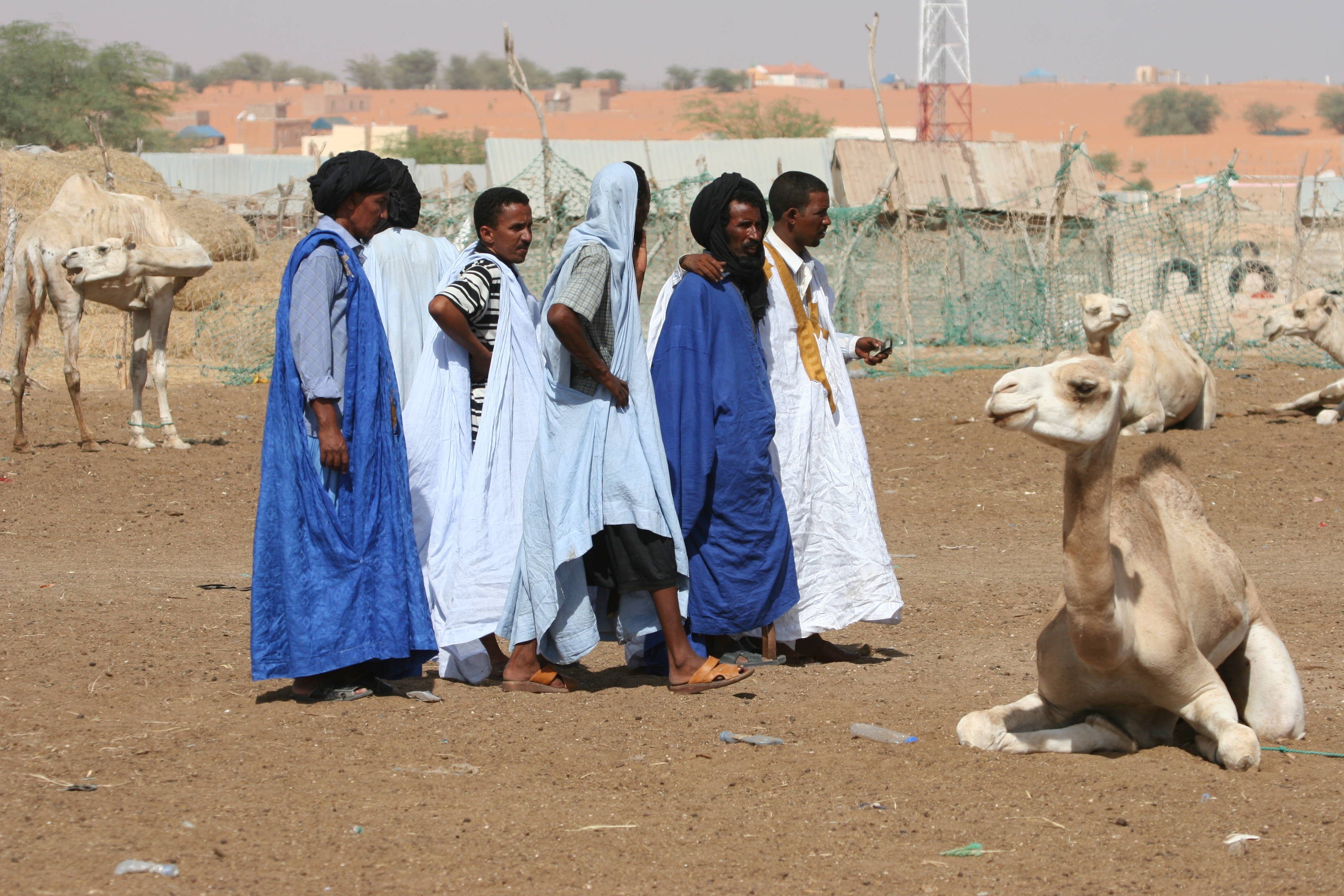 Mauritanian bedouins in their traditional boubou's at the camelmarket in Nouakchott, Mauritania, Aug 2007